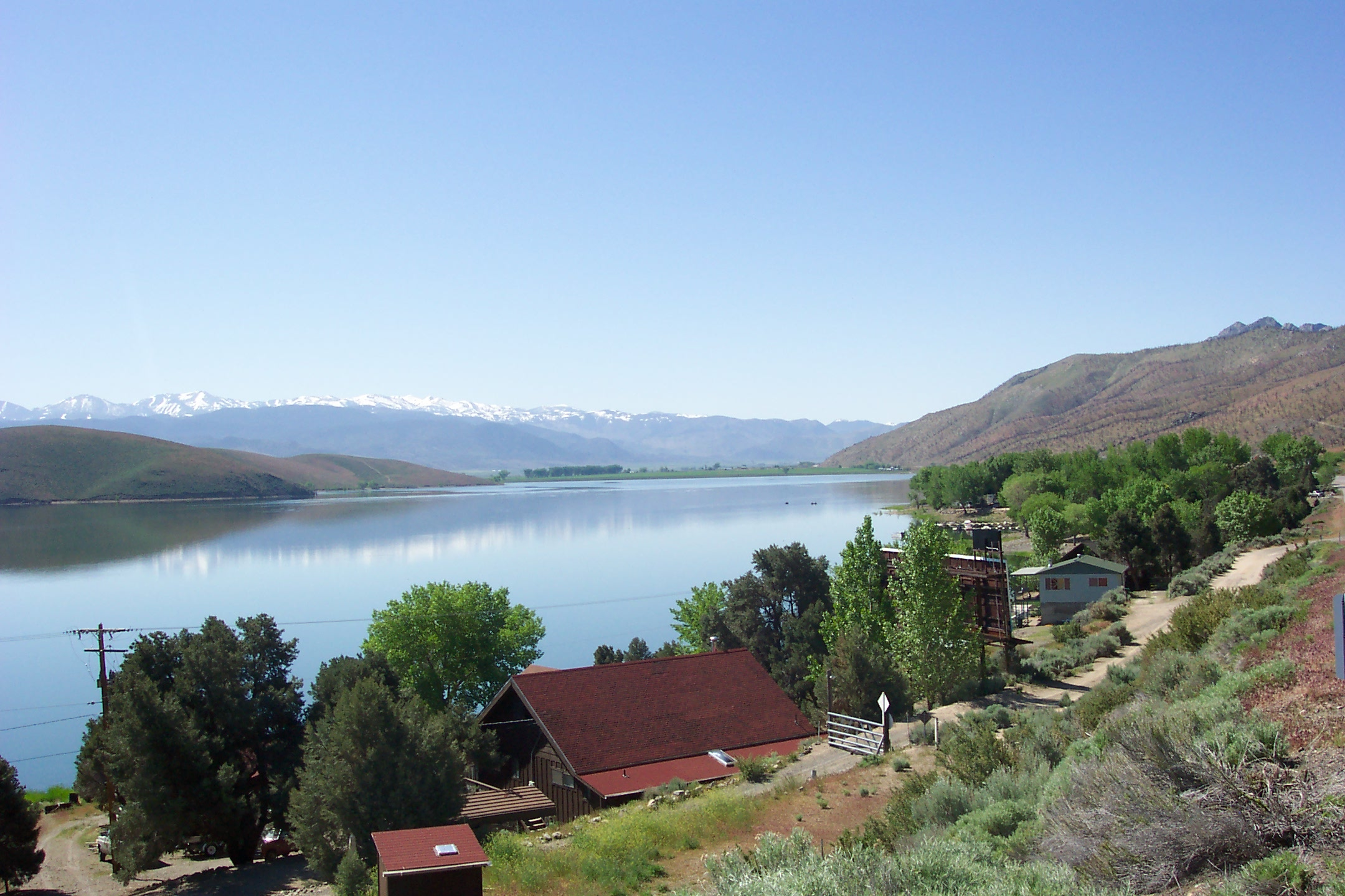 Topaz Lake, on the CA/NV border, looking south from the NV side.